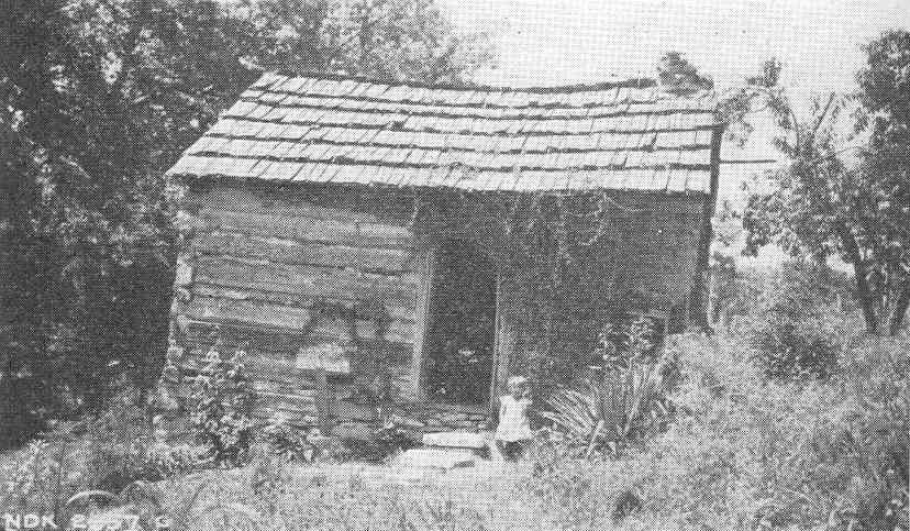 Girl in front of her family's house in the Lost Creek area of Union County in the U.S. state of Tennessee. TVA stated this house was "representative" of the "poorer" houses in the area.